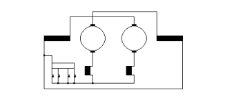 Electric motors